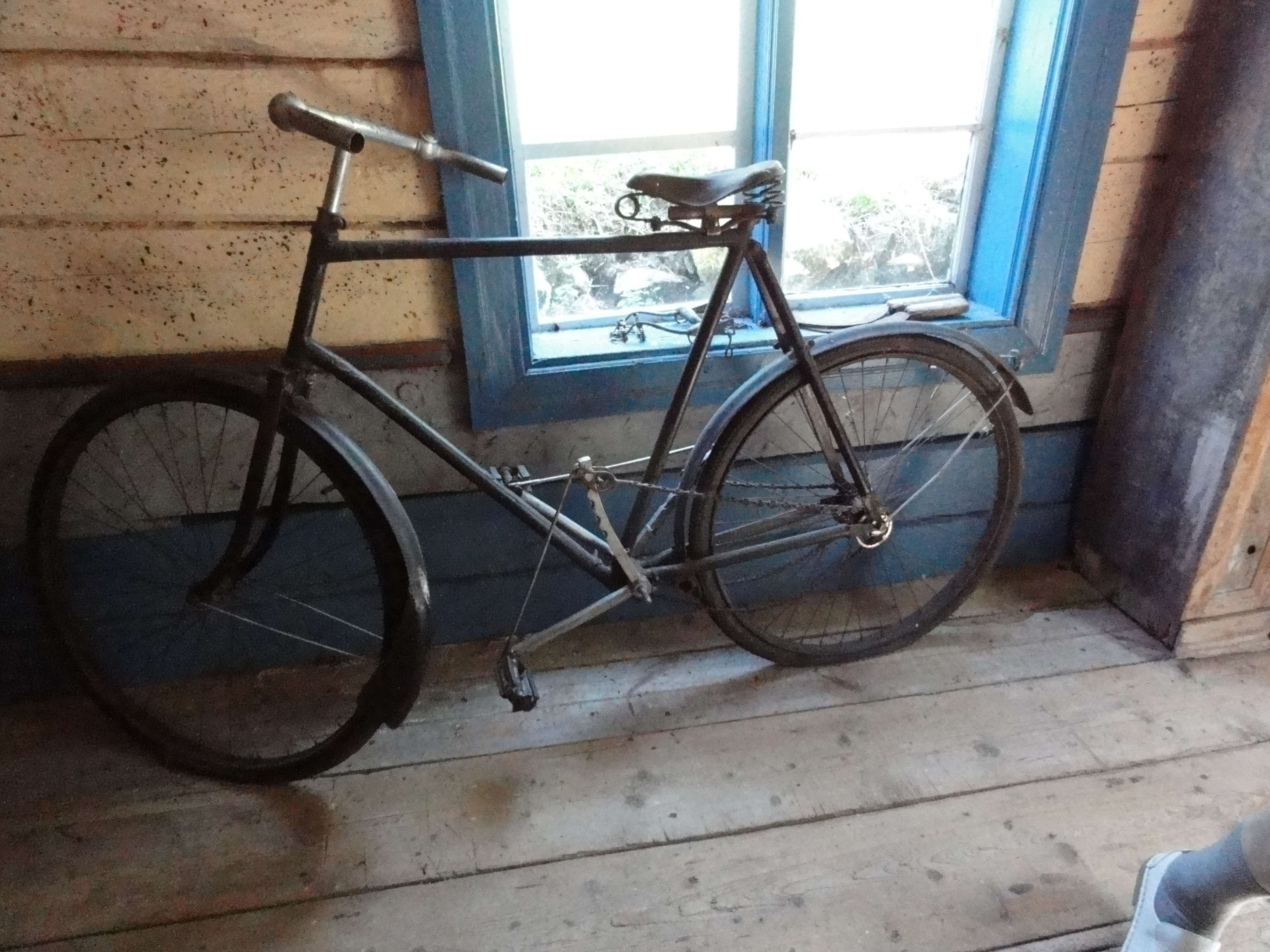 The swedish bicycle Sveacykeln, with freewheel, 5 gears, foot-brake and chain. The pedals are moved up and down instead of around as on the most common bikes todayUnknown den svenska sveacykeln med frihjul, fem växlar, fotbros och kedjedrift. cykeln drivs framåt genom att trampa pedalerna upp och ner; inte runt som på dagens vanliga cyklar.